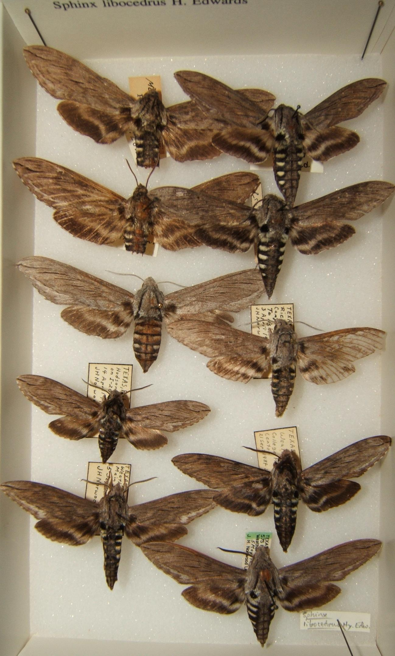 Sphinx libocedrus adult variation taken by Shawn Hanrahan at the Texas A&M University Insect Collection in College Station, Texas.